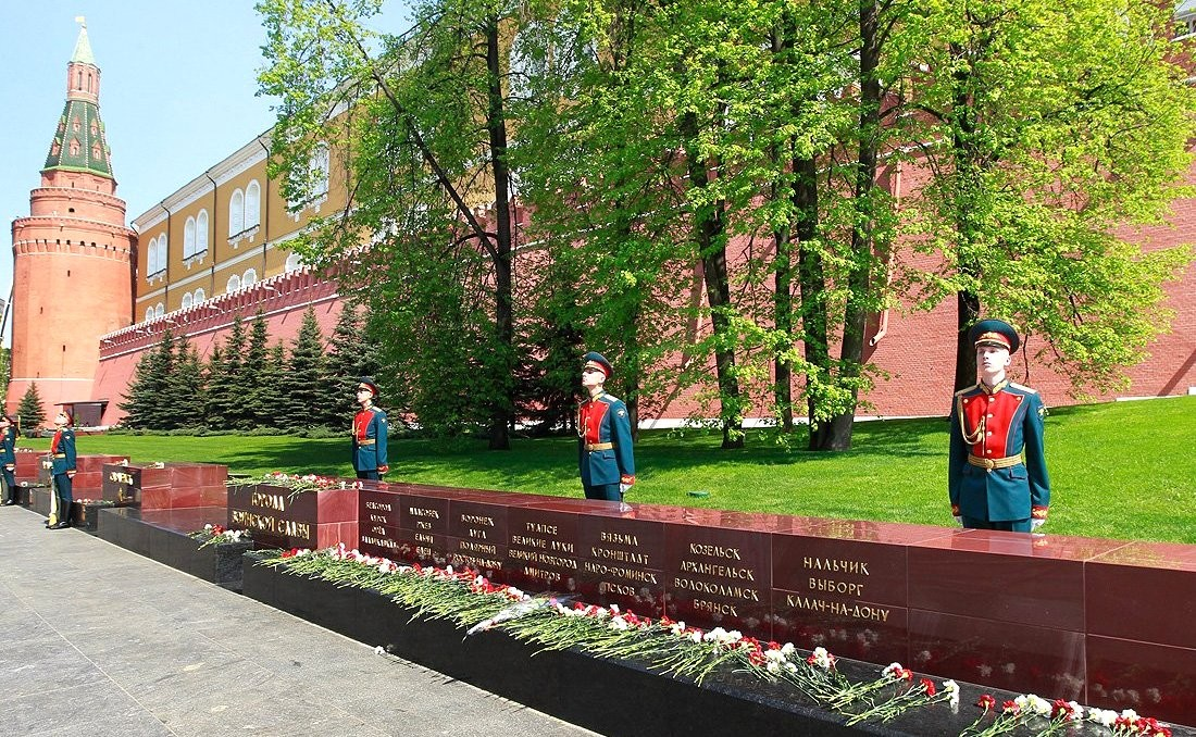 ALEXANDER GARDEN, MOSCOW. Unveiling monument in honor of cities awarded the honorary title of the Russian Federation, City of Military Glory.